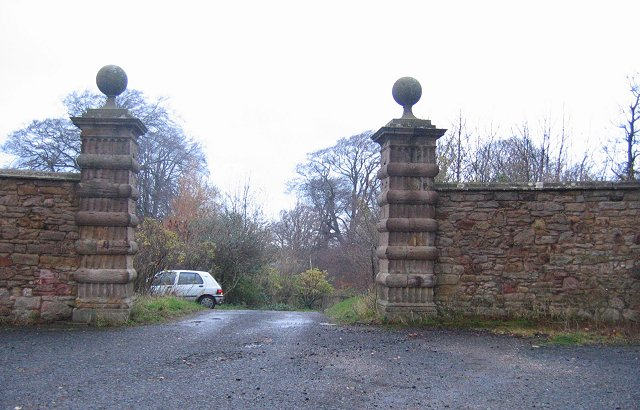 Gateway, Broxmouth. Ornate gateway to Broxmouth House in a wooded/parkland desmene. Was being watched from the car, having given my stock two letter word answer to the dreaded "can I help you"